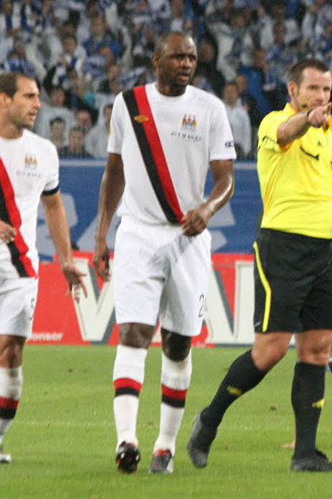 Patrick Vieira. Lech Poznań vs Manchester City FC, 4 November, 2010.